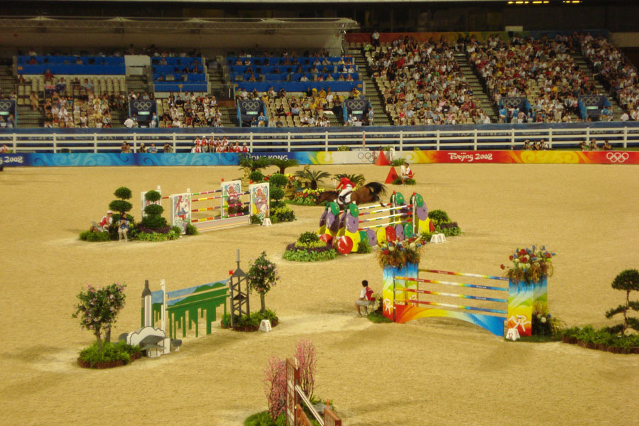 Beijing 2008 Olympic Game - Equestrian Event - Final of Individual Jumping